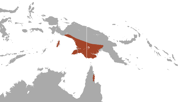 Southern Common Cuscus (Phalanger mimicus) range